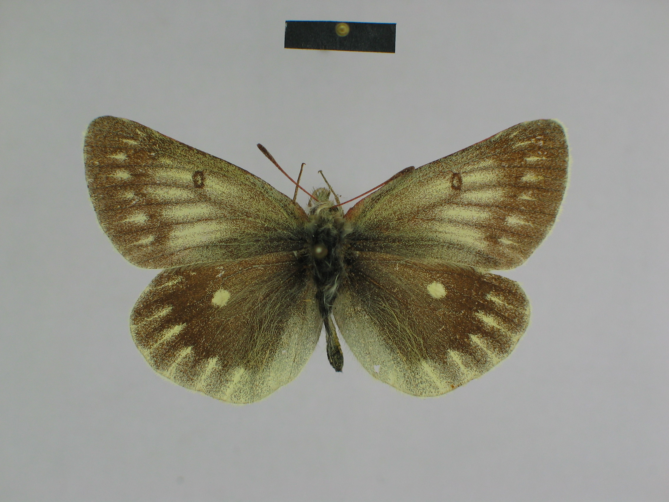 Specimen of the species Colias nebulosa nebulosa from the collection of the Museum für Naturkunde; ♂ dorsal side; scalebar=1 cm